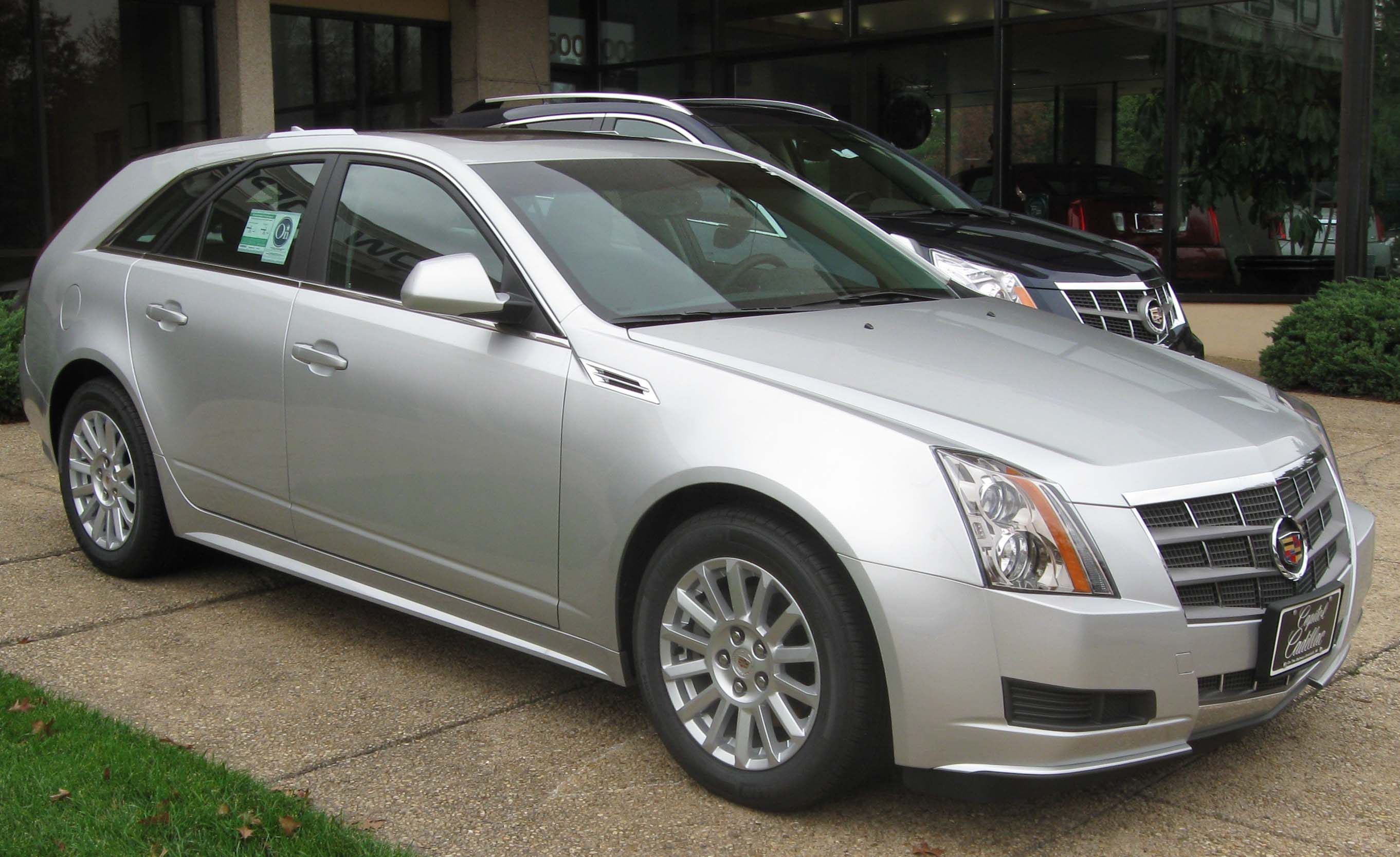 2010 Cadillac CTS wagon photographed in Greenbelt, Maryland, USA.